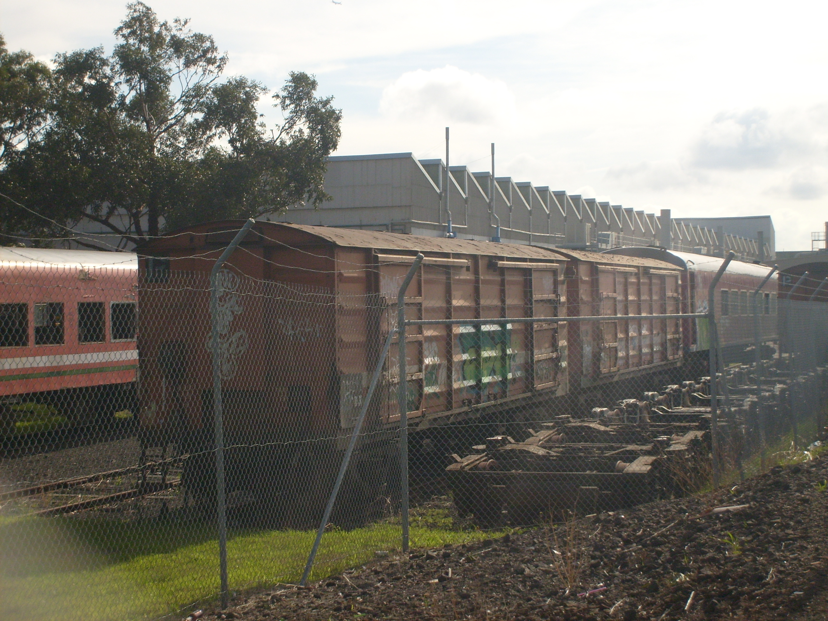 Two DN vans at Newport Workshops from Nth Williamstown station